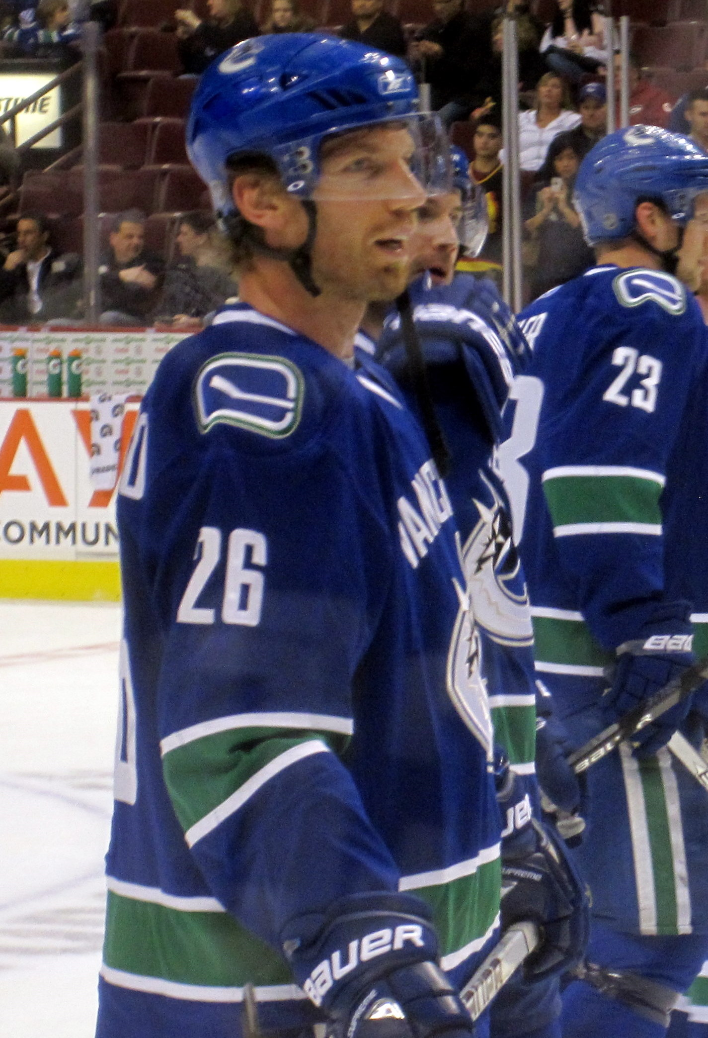 Vancouver Canucks forward Mikael Samuelsson during a game against the New York Islanders on March 16, 2010, in Vancouver.